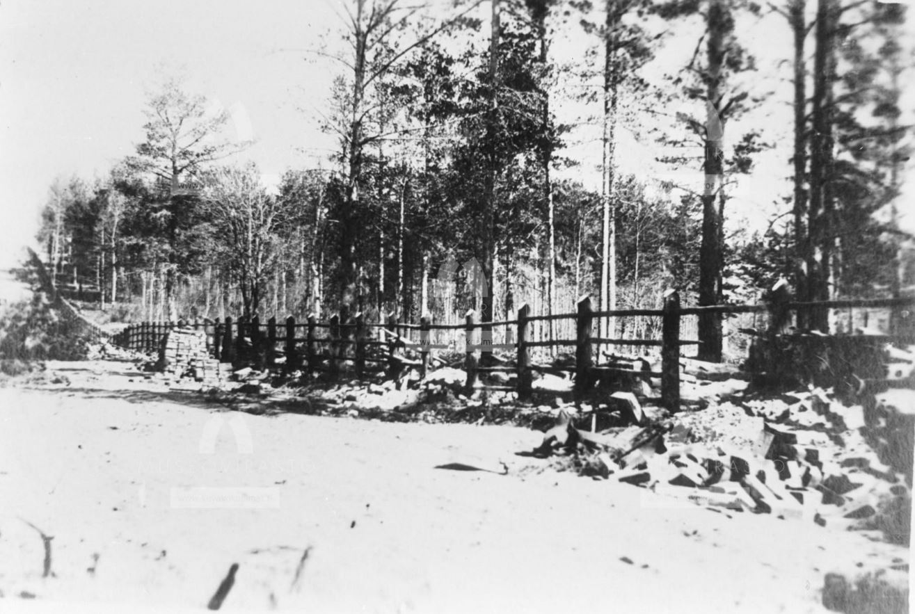 Red Guard trenches of the 1918 Finnish Civil War Battle of Rautu.